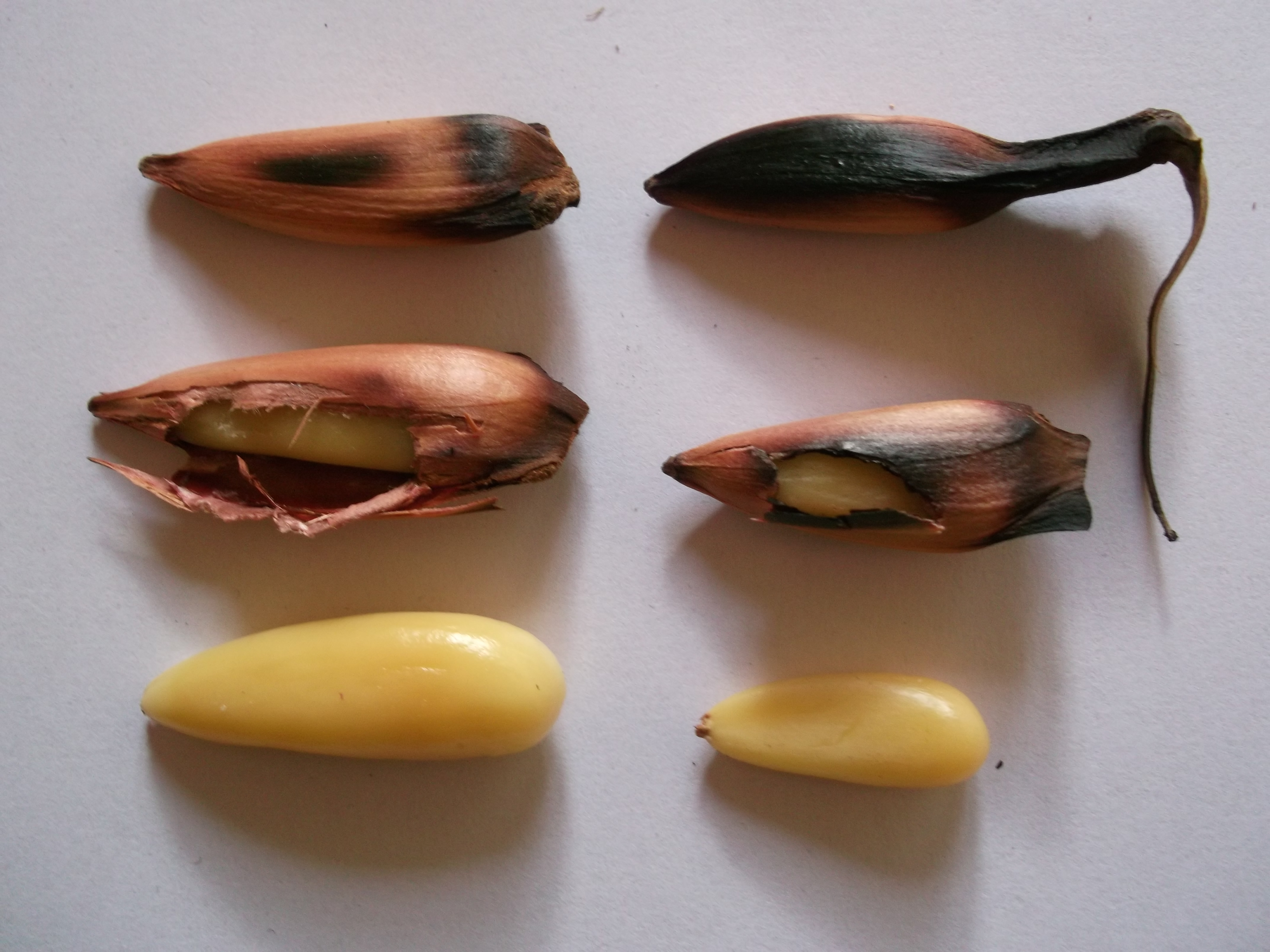 Two cooked seeds cultivars of Araucaria araucana, with 5 to 3 centimeters.